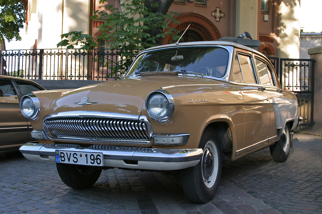 see also this old volga I photographed in Kaunas